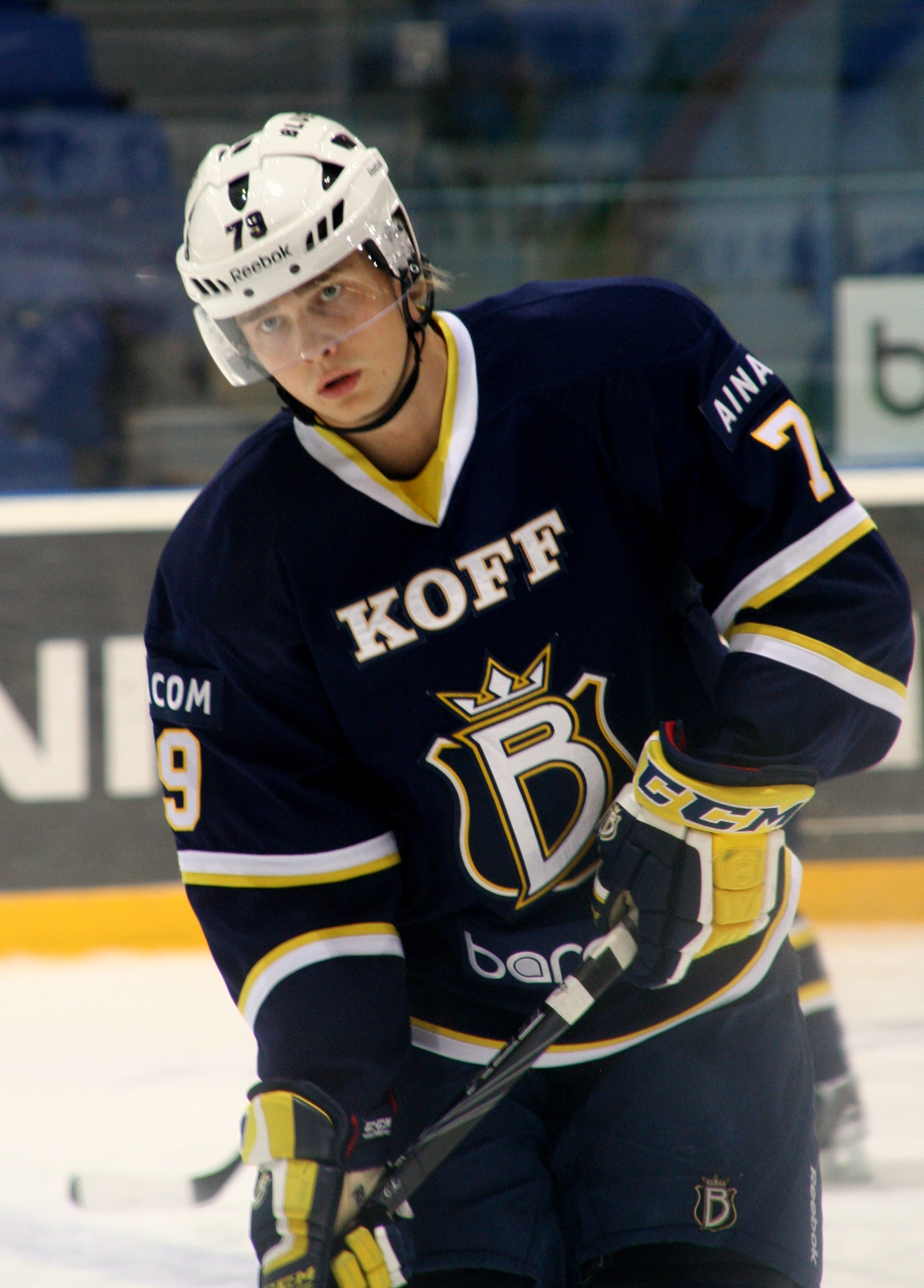 Ice Hockey Team Espoo Blues' Attacker #79 Eetu Pöysti